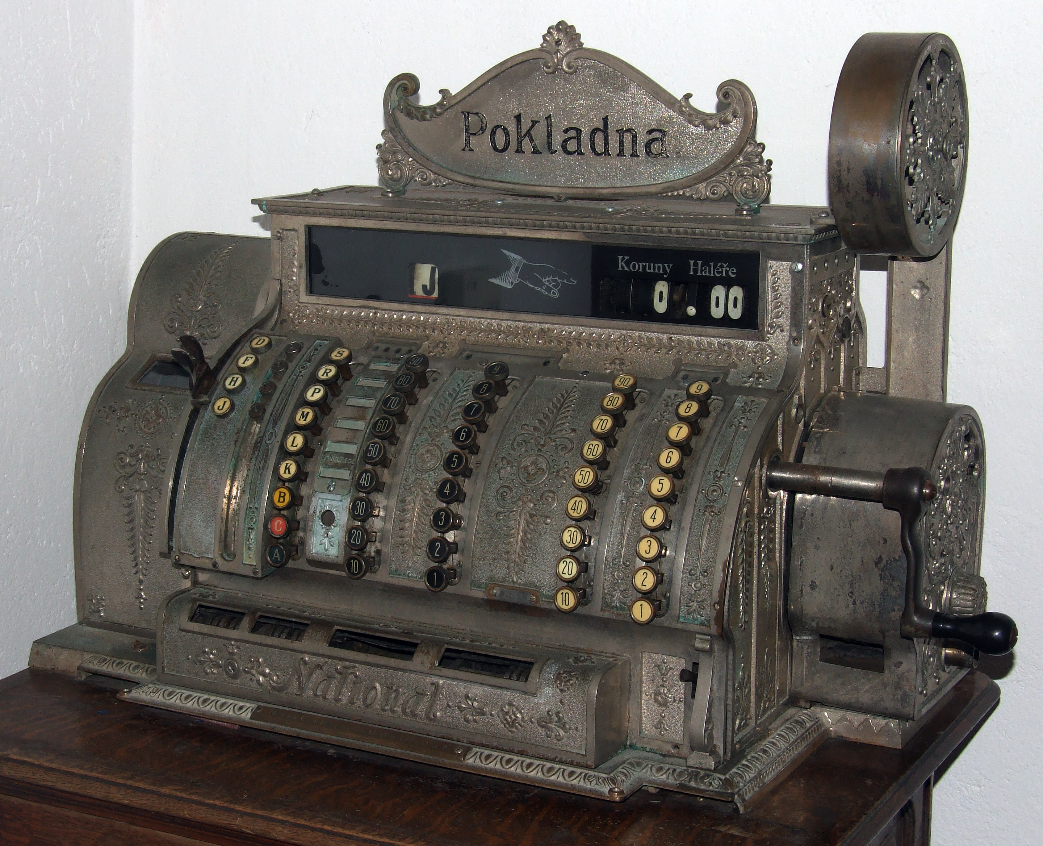 Cash registers built in 1904 in Ohio (USA) for a merchant in Nové Město nad Metují